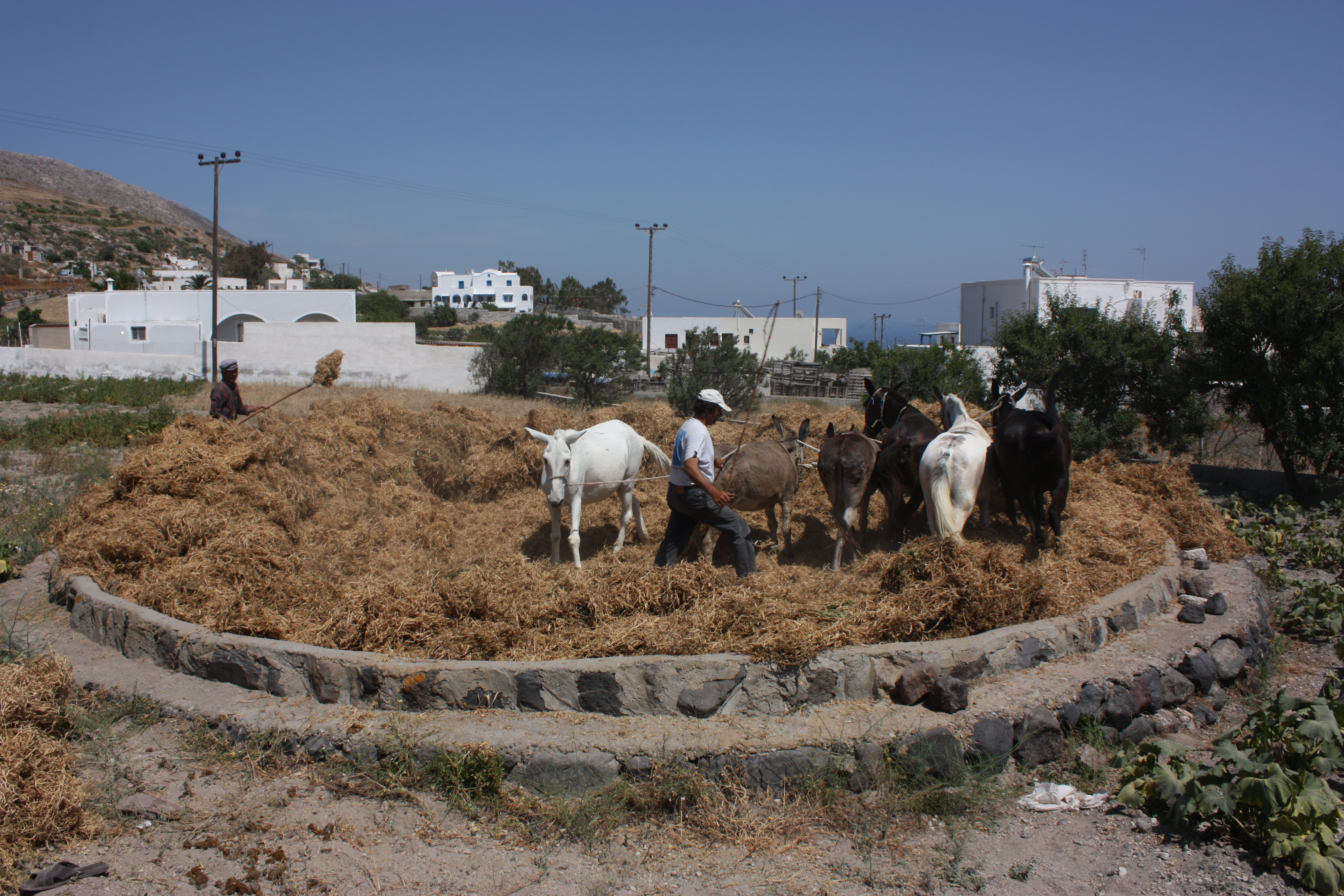 Threshing of Santorini's Fava... Village Emporio, Santorini... Threshing of Fava...